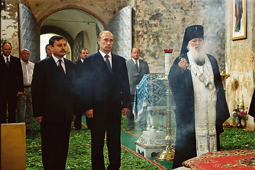 THE NOVGOROD REGION. President Putin in the Valdai Iversky Svyatoozersky Monastery of Our Lady during a service for those killed in a terrorist attack in Astrakhan on August 19. Governor of the Novgorod Region Mikhail Prusak and Archbishop Lev of Novgorod and Staraya Russa.